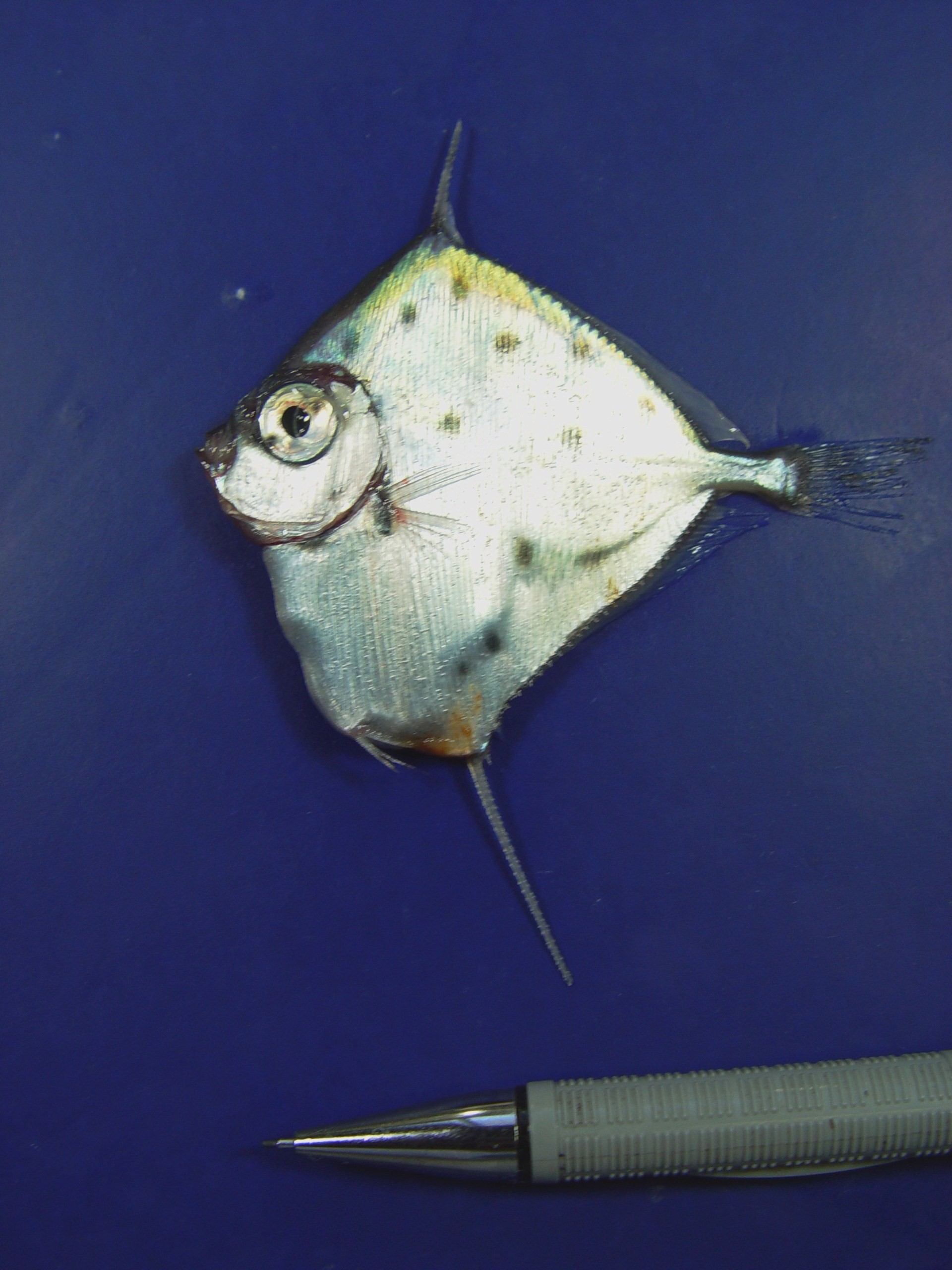 Spotted tinselfish (Xenolepidichthys dalgleishi) from Gulf of Mexico